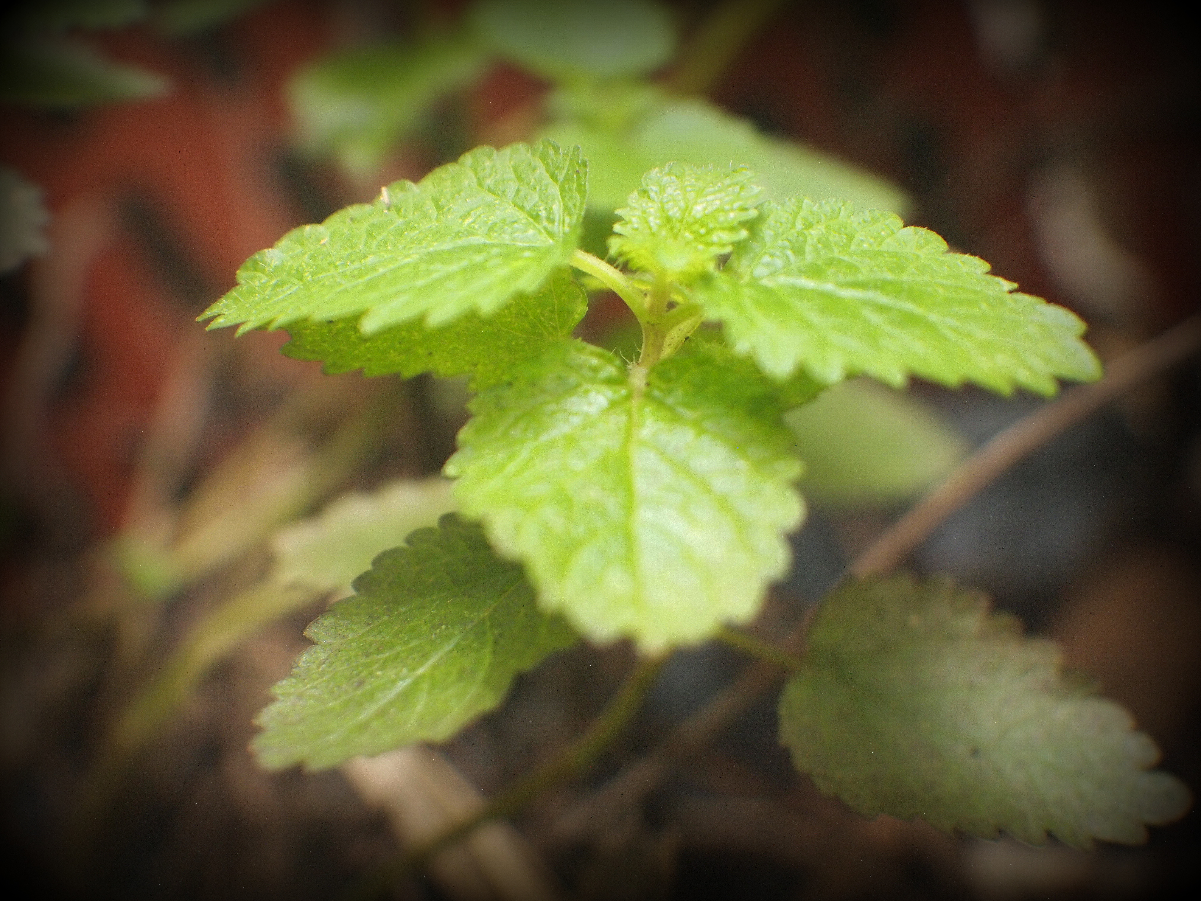 Mentha x piperita . Daun Pudina in Malaysia